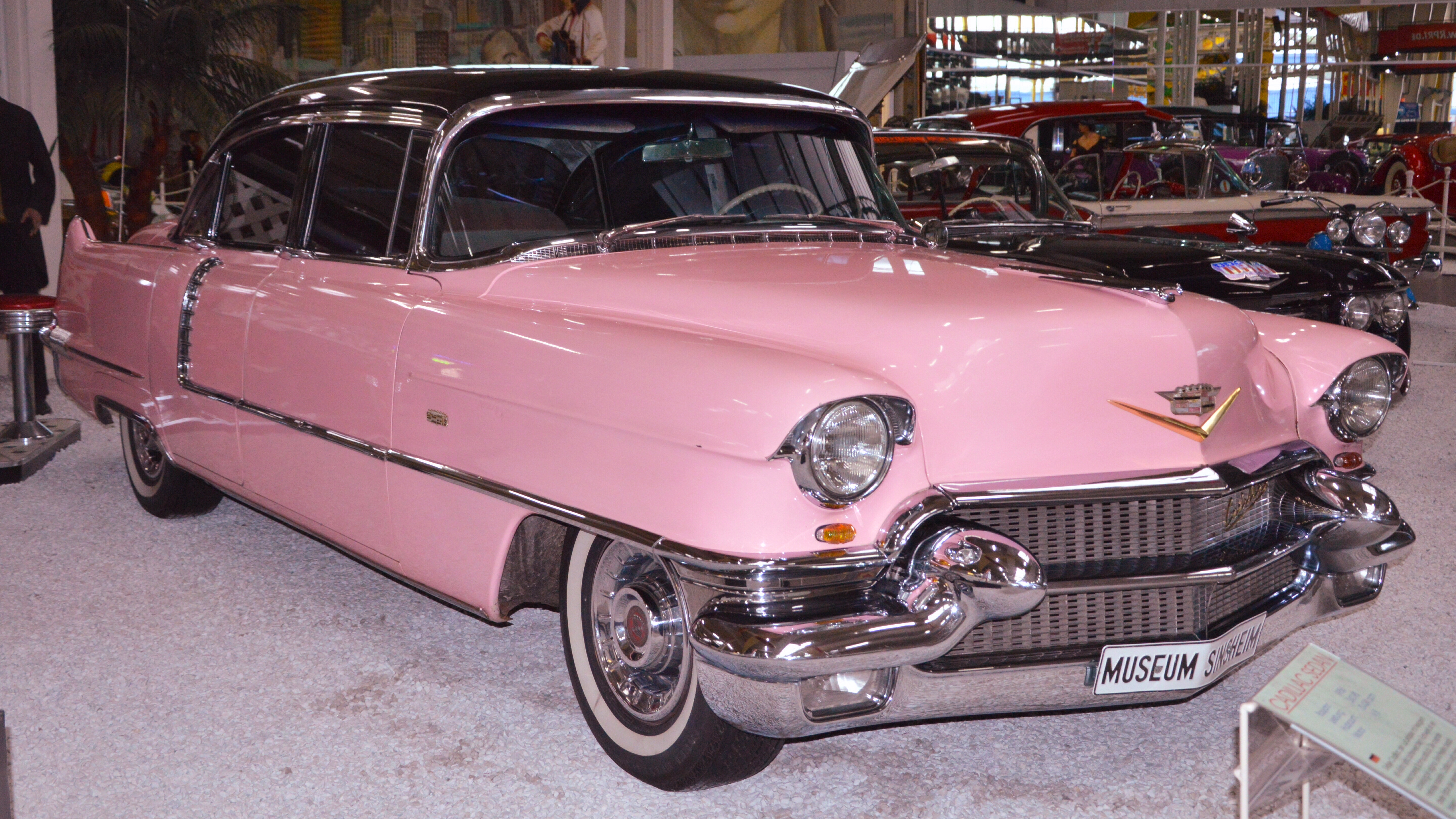 Cadillac Series 62 Sedan, built 1956. 4 doors, 240 HP, 5.424 cm³, V8-engine. Pink colour was quite popular in the 50s. Photo taken 2013 at Car & Technology Museum Sinsheim, Germany.